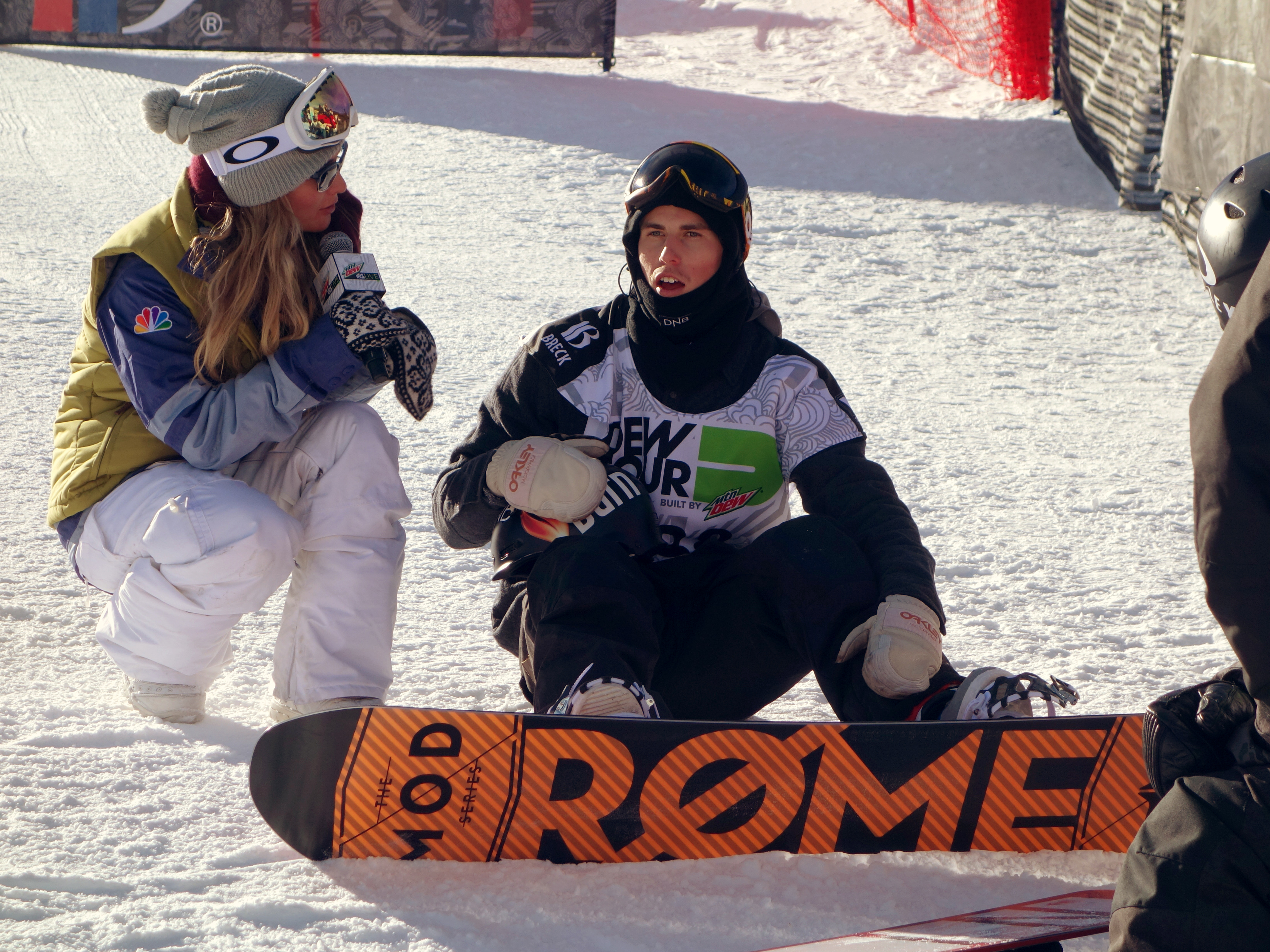 Norwegian snowboarder Ståle Sandbech at the Dew Tour 2013